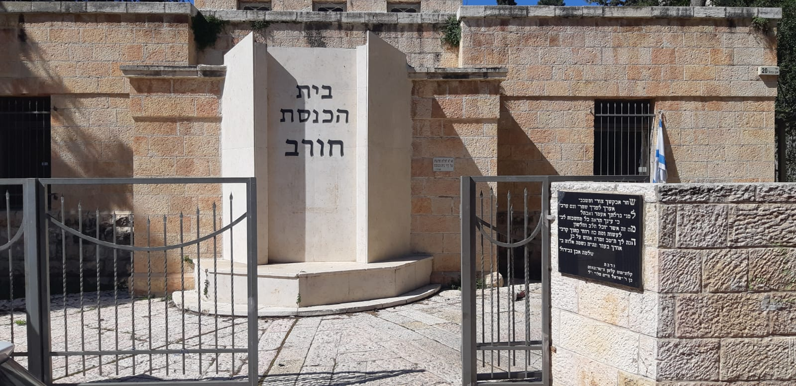 Jerusalem, Rehavia, 20 ibn gabirol street, synagogue chorev